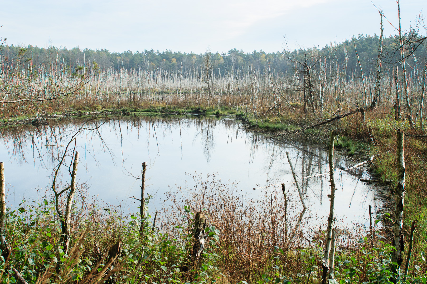 The peat bog "Biały Ług" west of Góraszka. One of the reservoirs. Aleksandrów, Wawer, Warsaw, Poland. This is a photography of protected area with CRFOP ID PL.ZIPOP.1393.PK.72